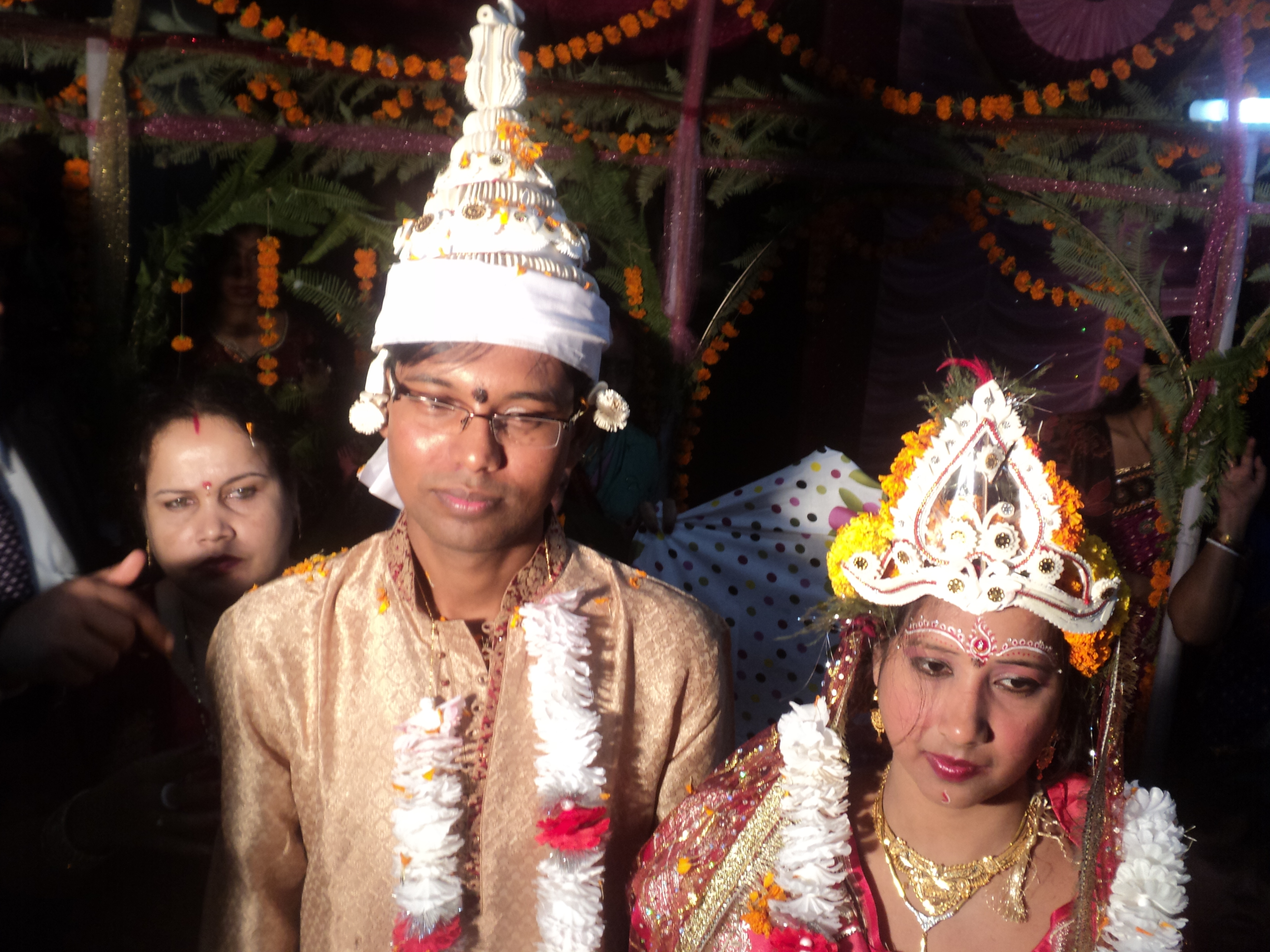 A Bengali Hindu Couple newly Married.